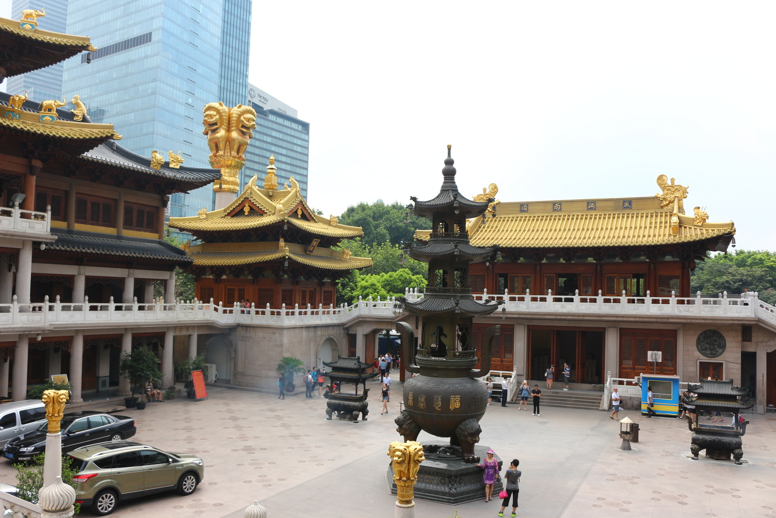 The grounds of Jing'an Temple in Shanghai China